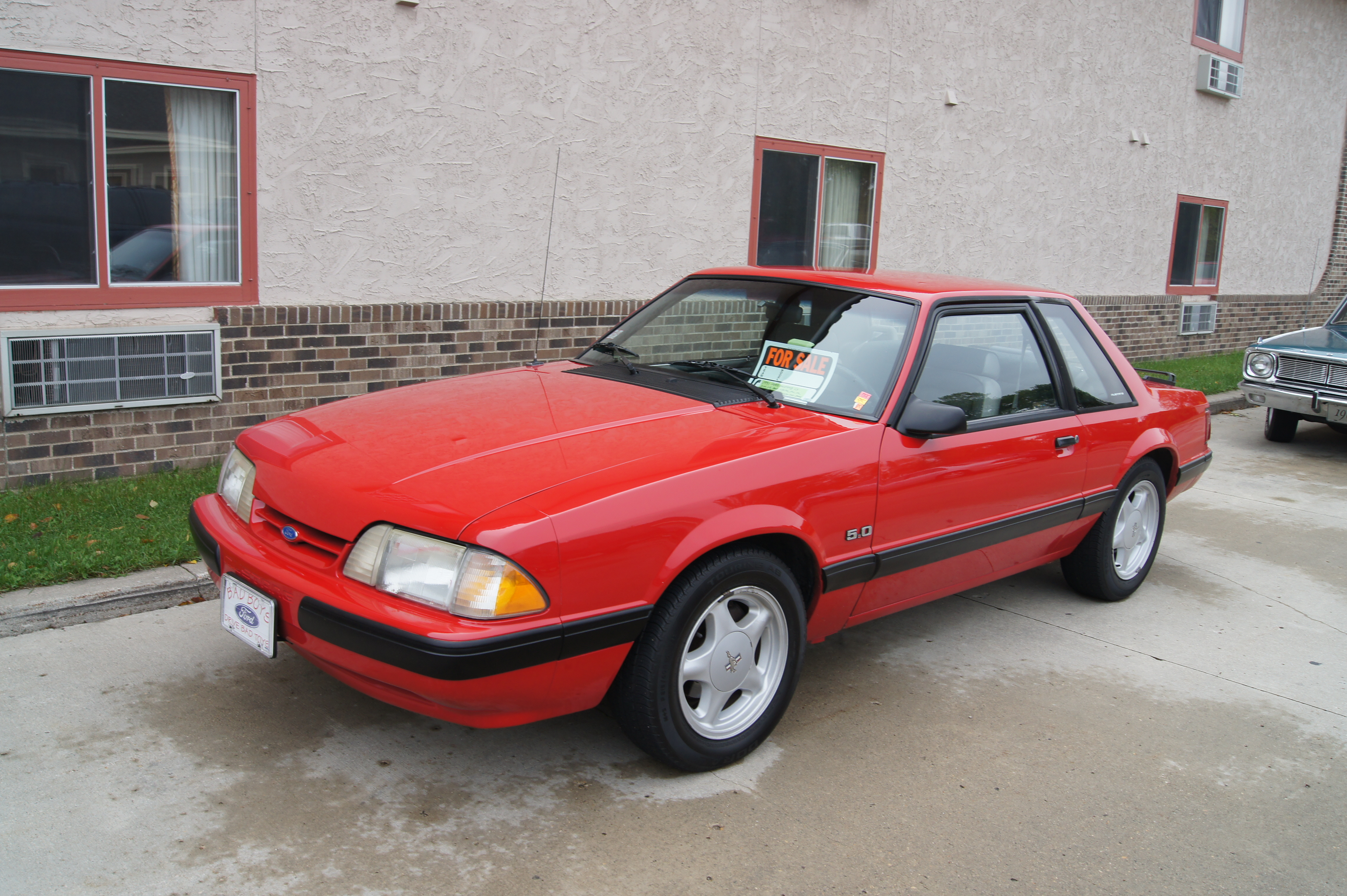 Willmar Car Club Car Buffs' Breakfast Spicer American Legion October 2013